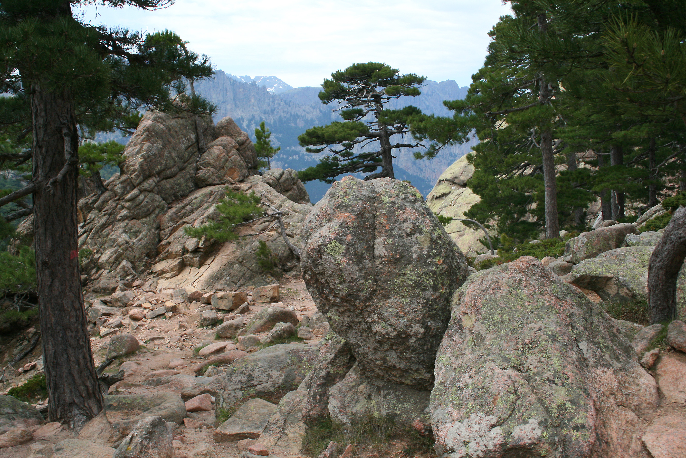 Zonza France (Corse-du-Sud), the Bavella needles. Trees are Pinus nigra subsp. salzmannii var. corsicana. Walon: Zonza France (Corse-do-Sud), les awîyes di Bavèla.